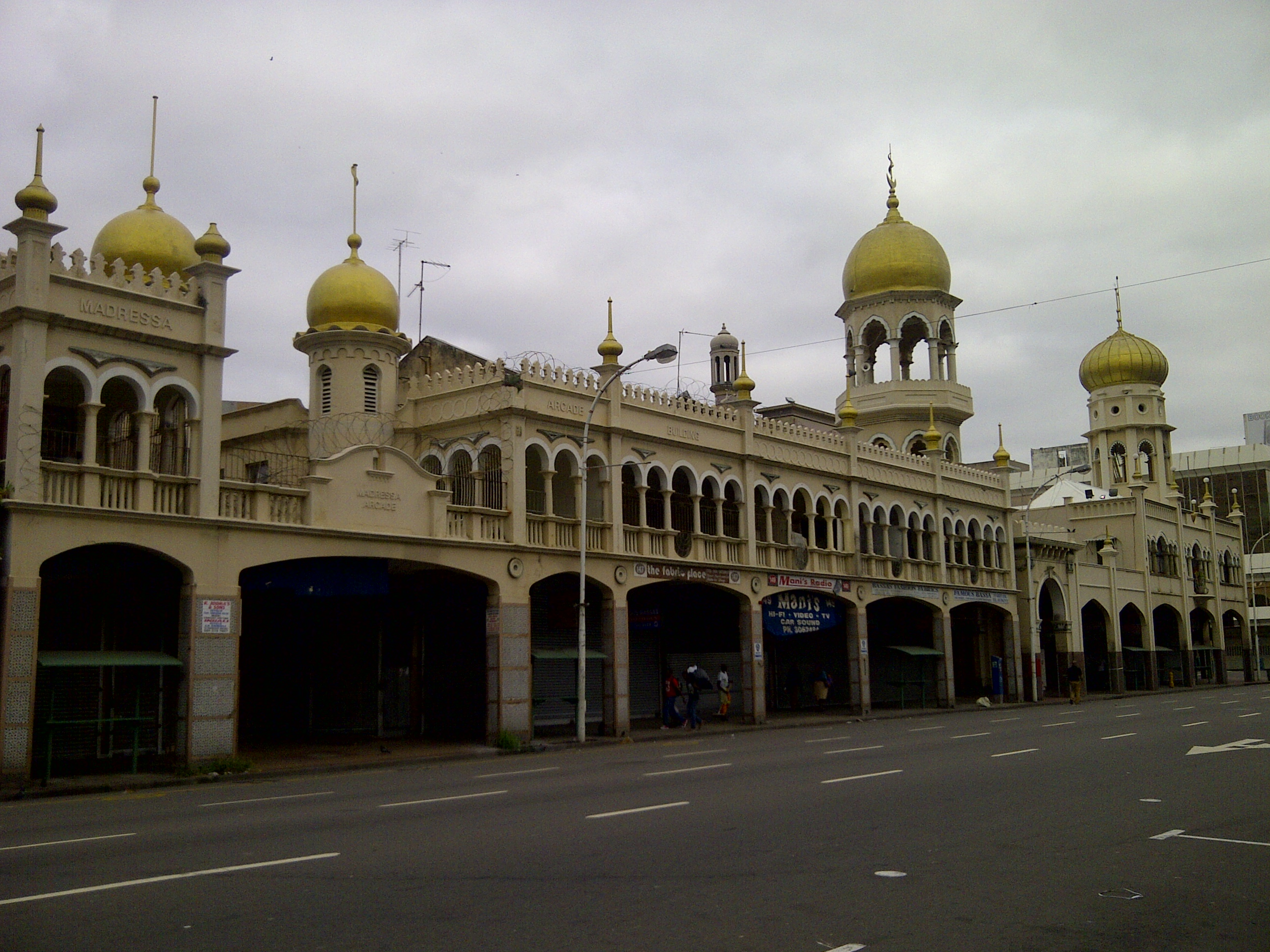 Durban - South Africa